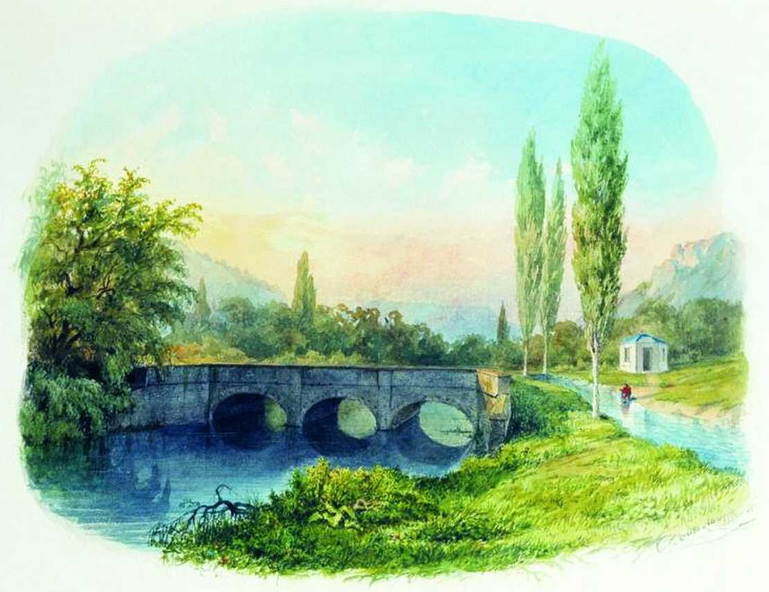 Lagorio. Chorgunskaya bridge-aqueduct. 1850 year. 35 by 48 cm Watercolour on paper.